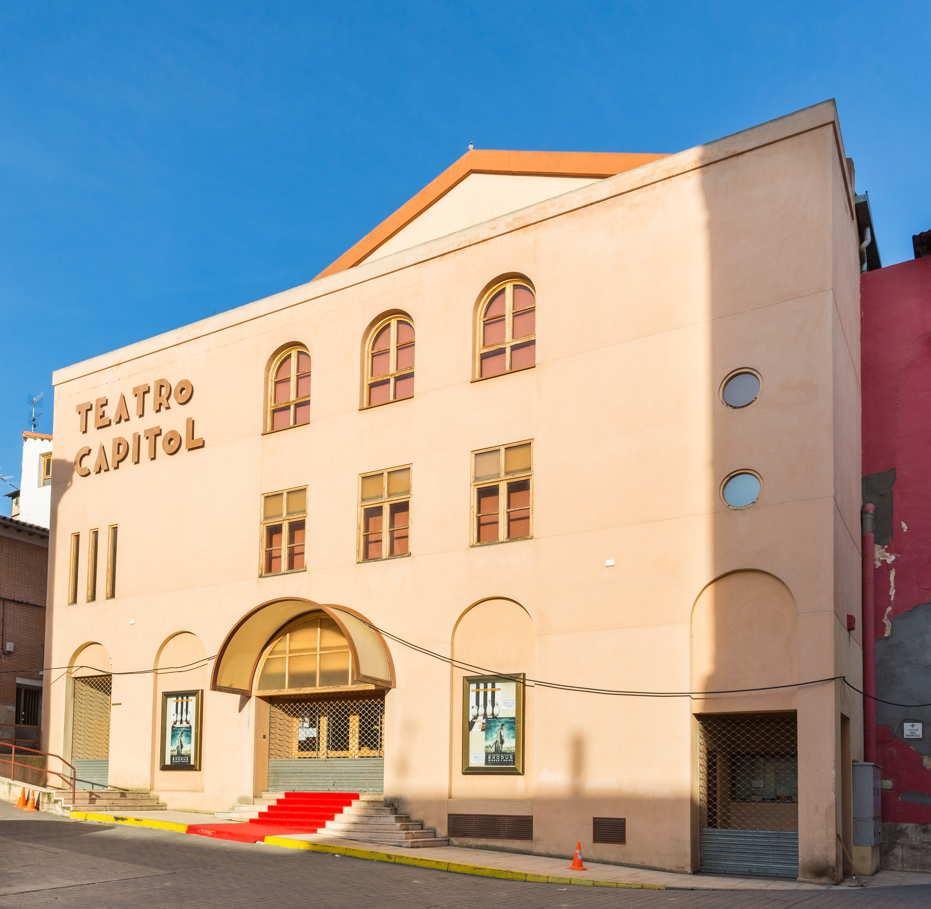 Teatro Capitol, Calatayud, Zaragoza, Spain